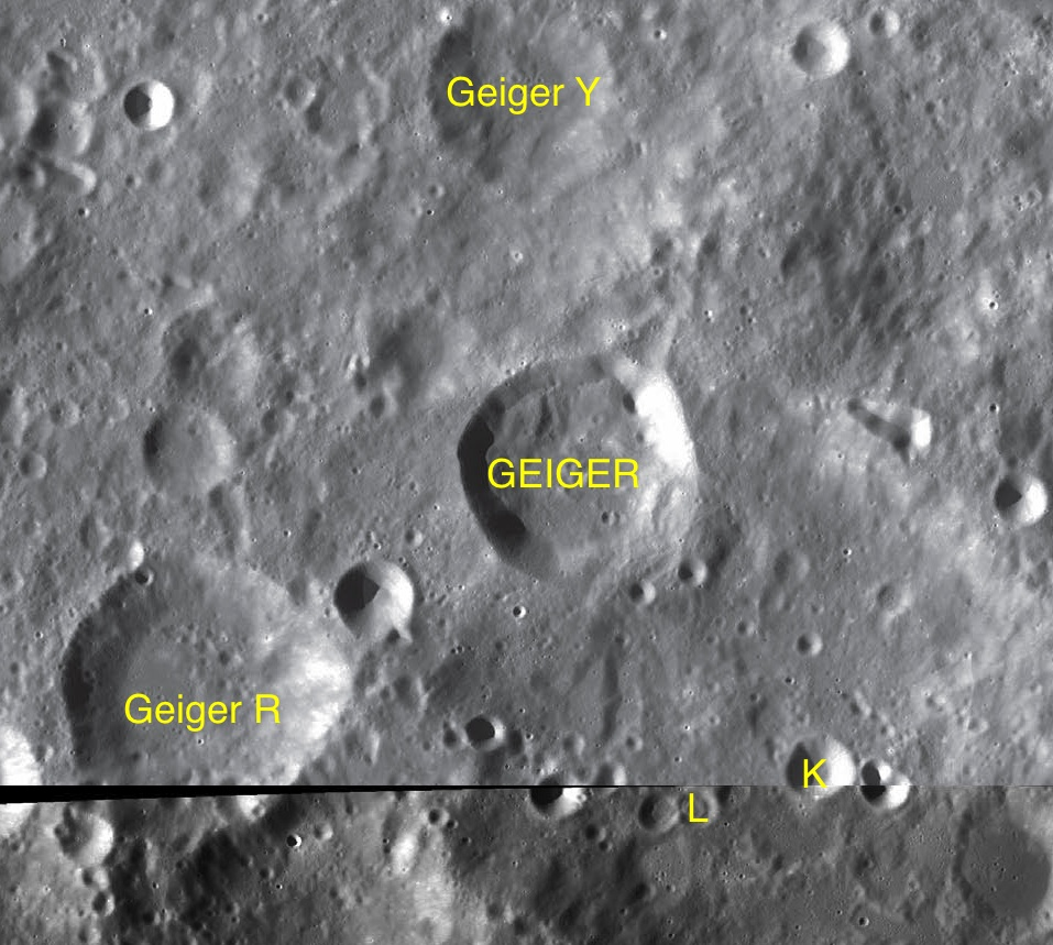 Parts of the charts LAC-85 , LAC-103 used for the presentation